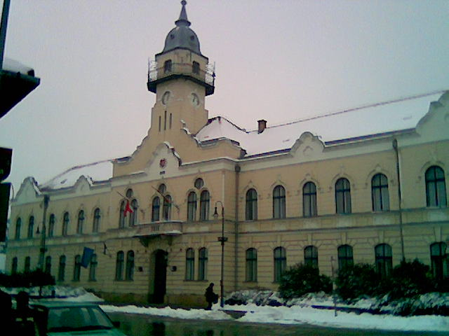 My own picture. Photo by N3220 phone. VillanyGabi 2006.